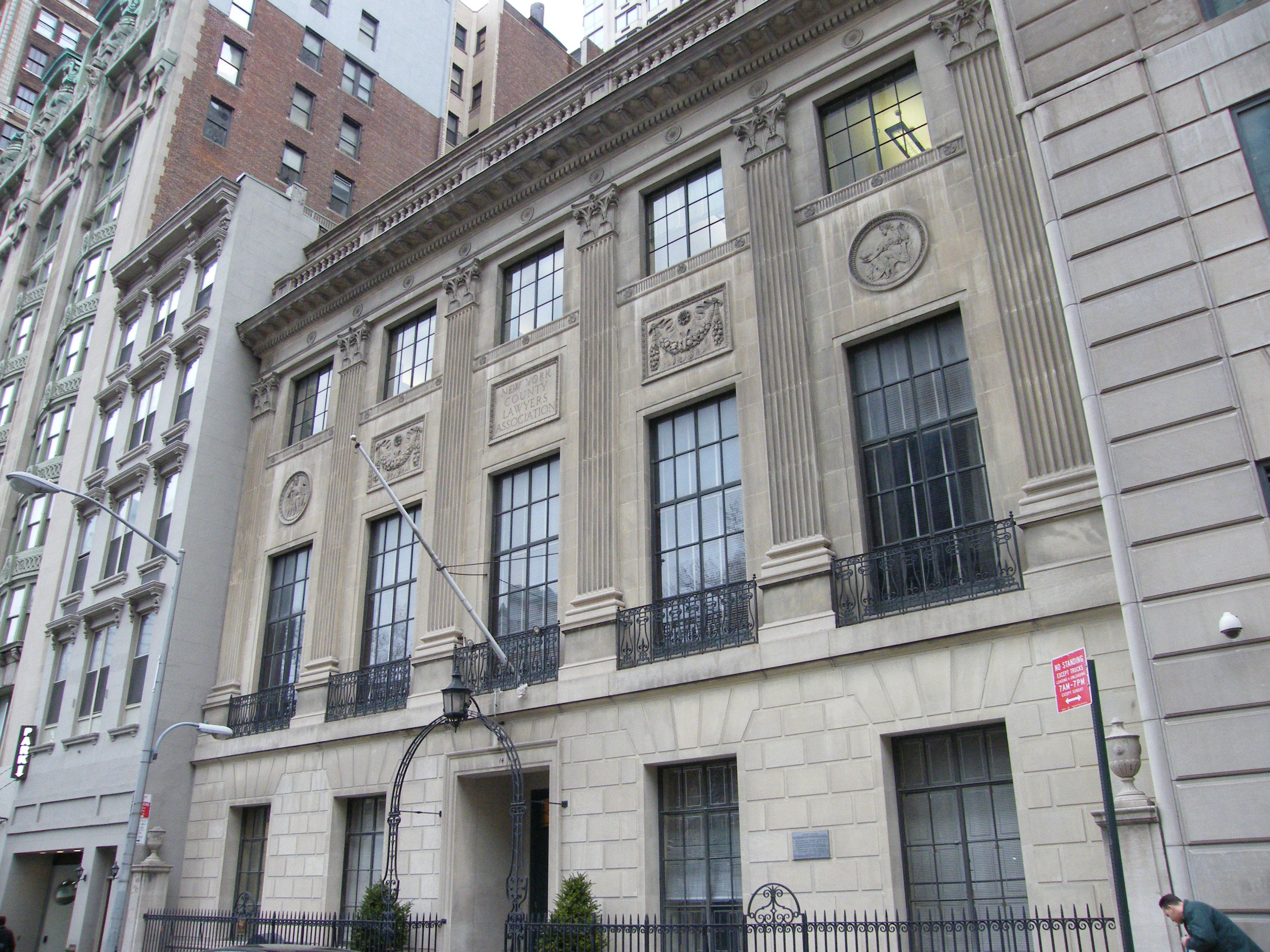 New York County Lawyers at 14 Vesey Street on National Register of Historic Places in New York City